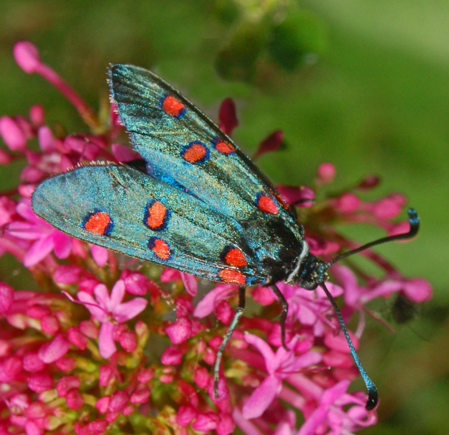 Zygaena lavandulae. Genova, Liguria, Italy